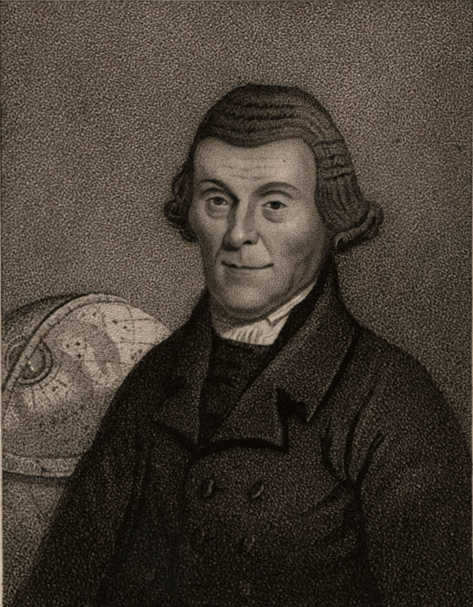 Portrait of Henry Andrews.